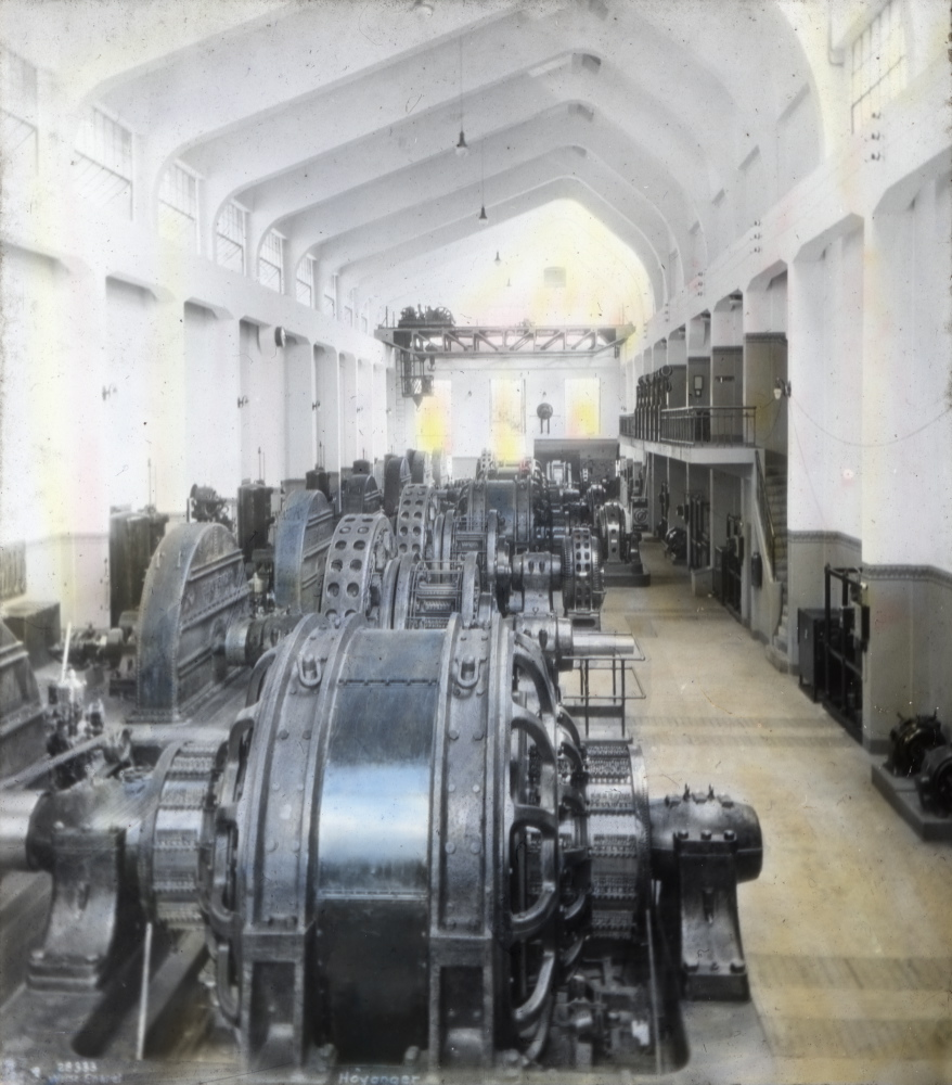 Håndkolorert dias. Interiør fra Høyanger kraftverk, antakelig K1A.